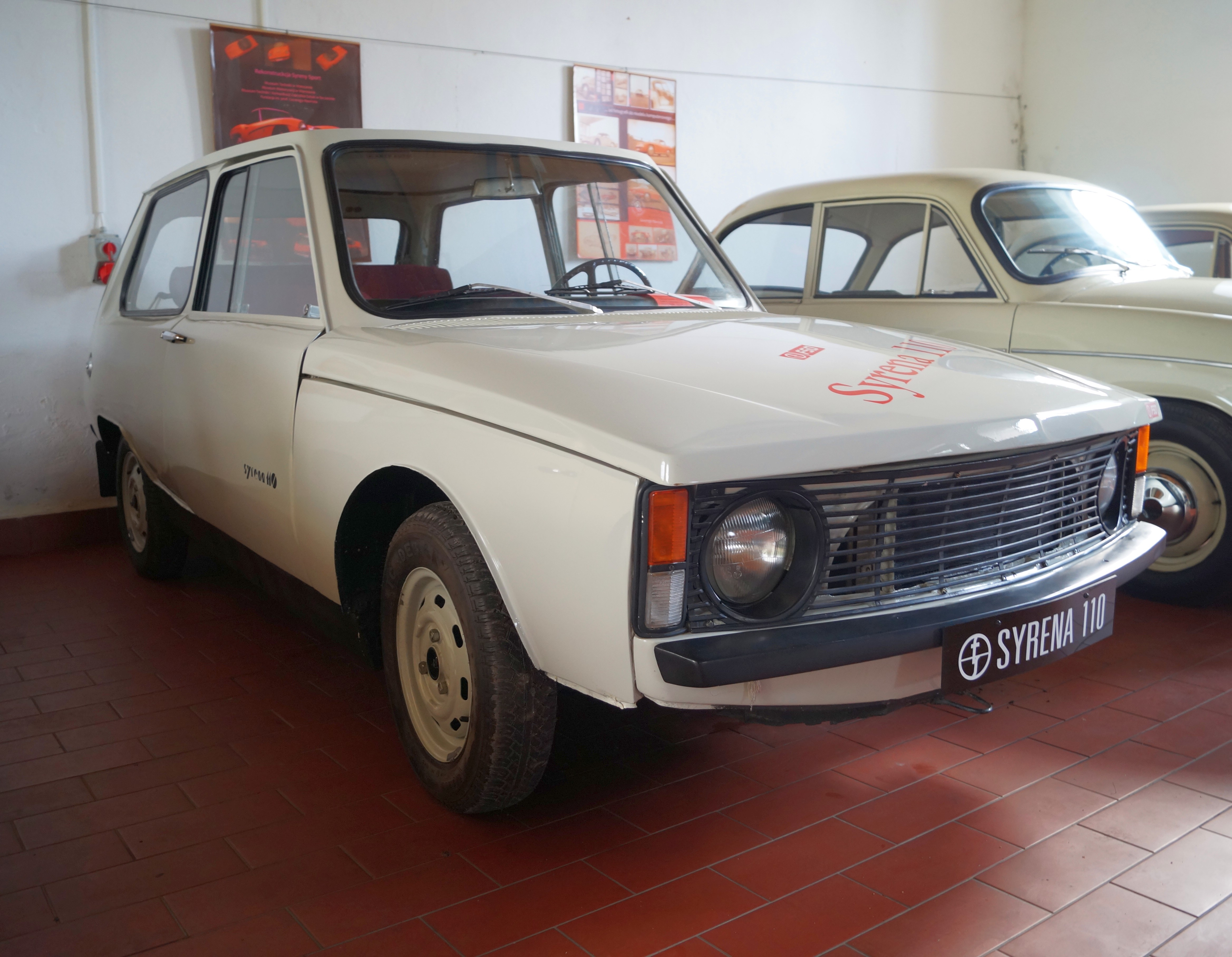 The making of this document was supported by Wikimedia Polska Association, within Wikigrant no. WG 2016-18. English | polski | +/− FSO Syrena 110 w Muzeum w Chlewiskach